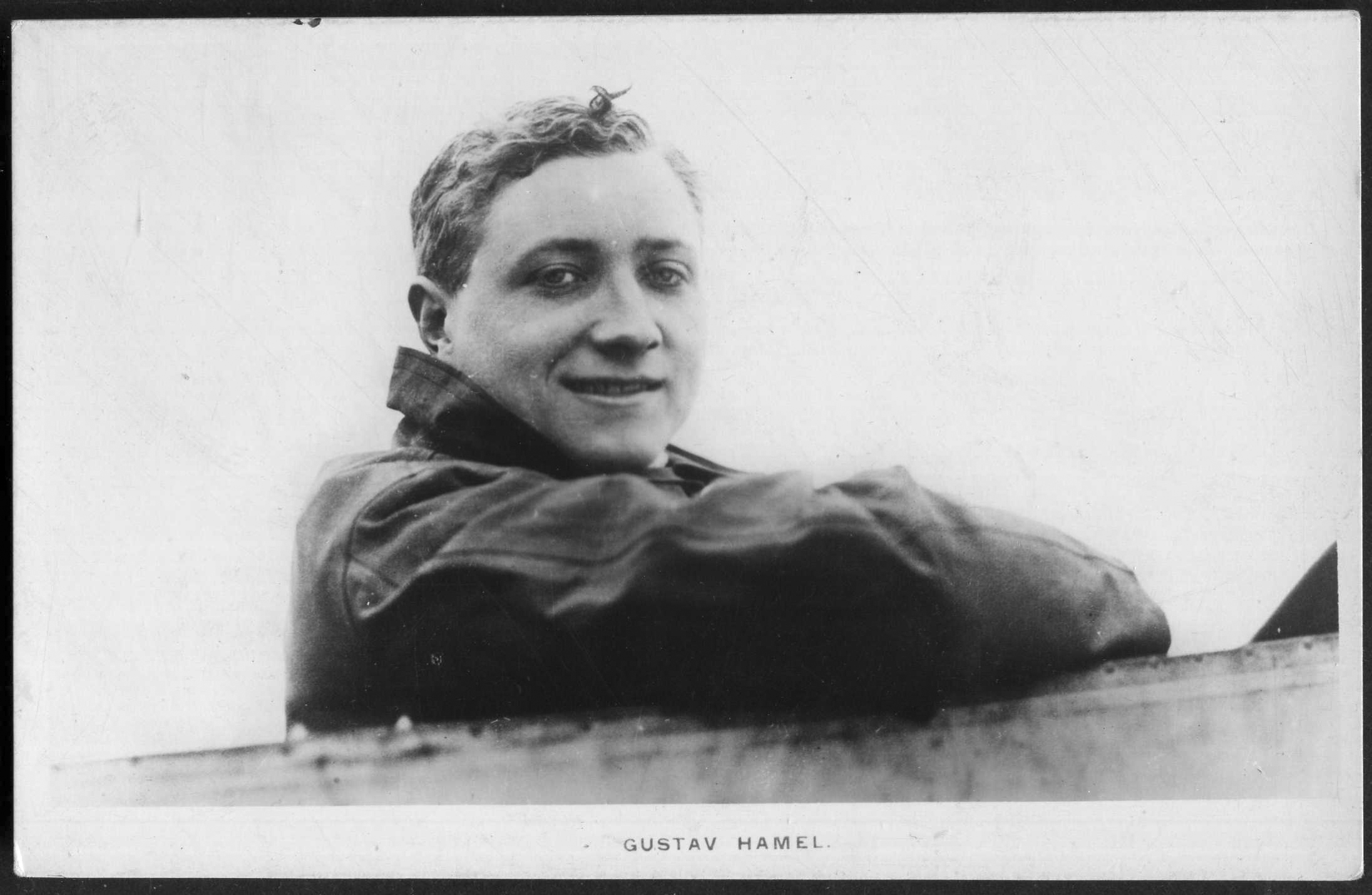 Photograph of Gustav Hamel on a postcard